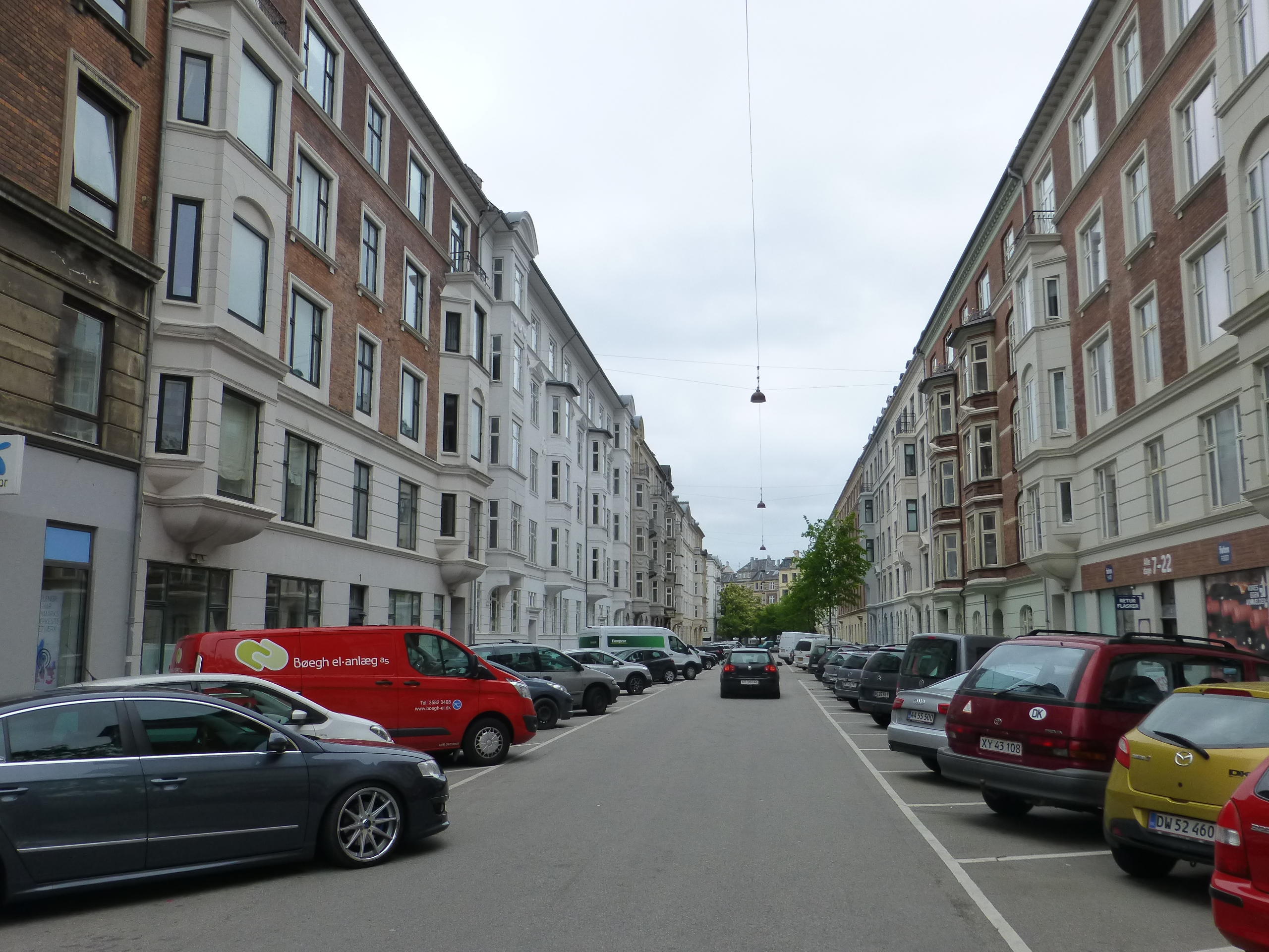 The street J.E. Ohlsens Gade in Østerbro in Copenhagen.